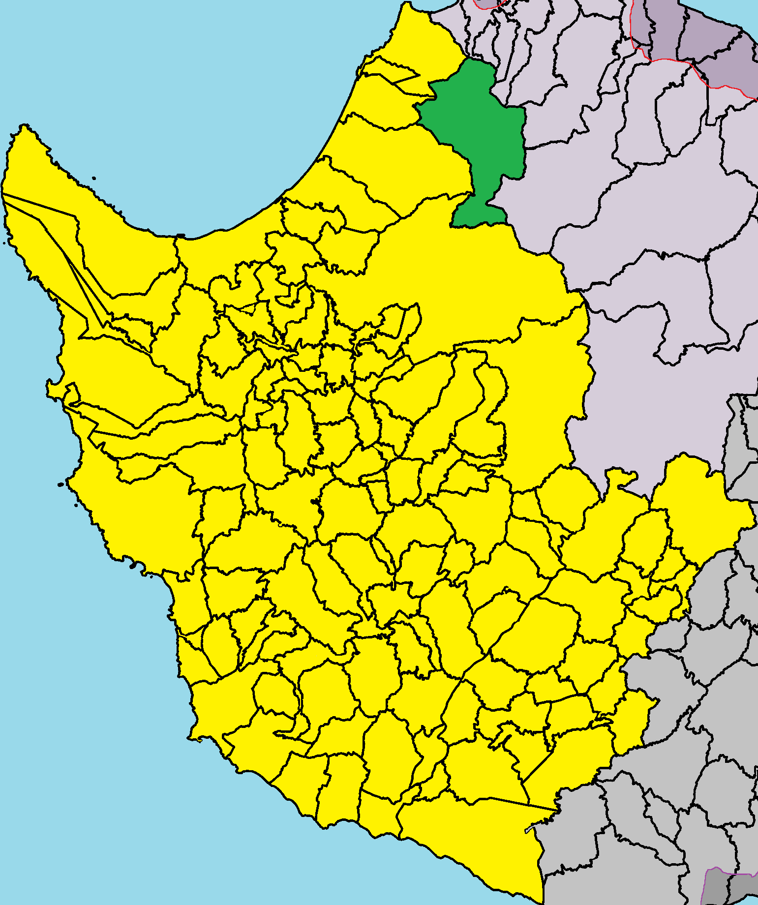 Livadi, Paphos in Paphos District.